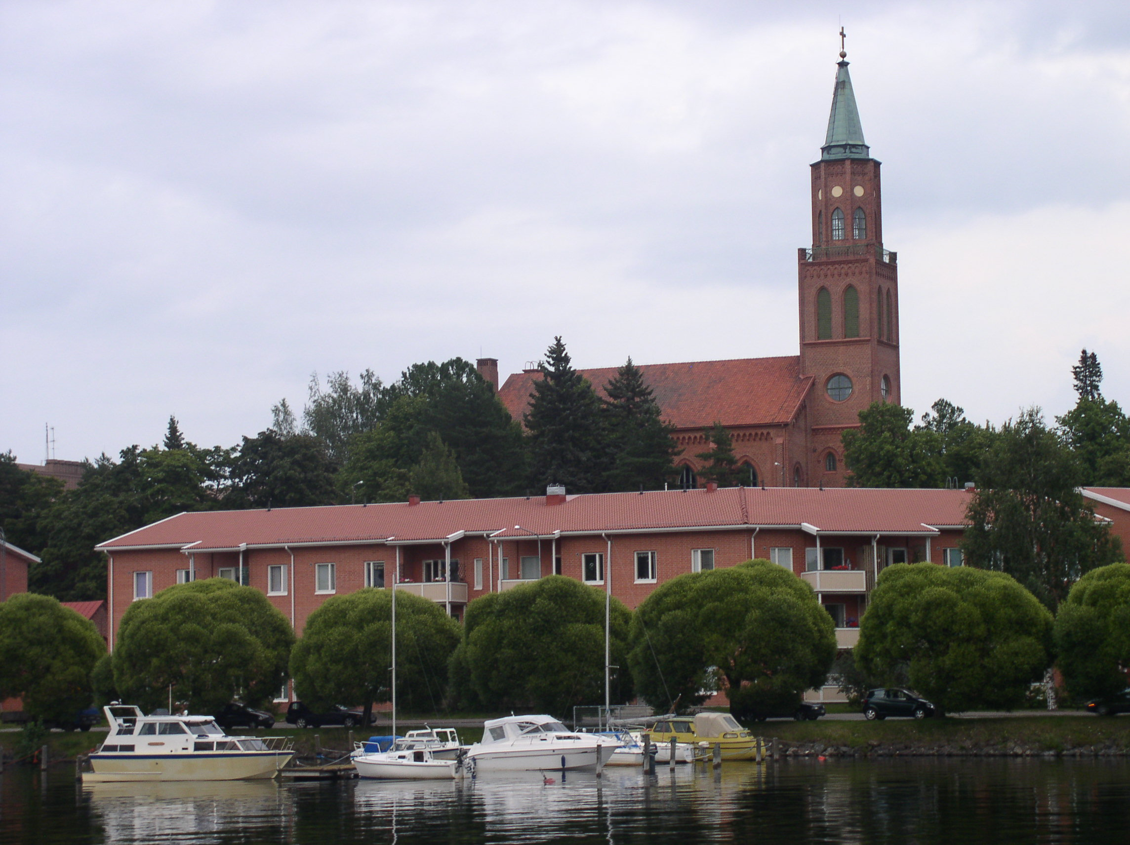 Savonlinna Cathedral in Savonlinna, Finland as seen across Haislahti bay.